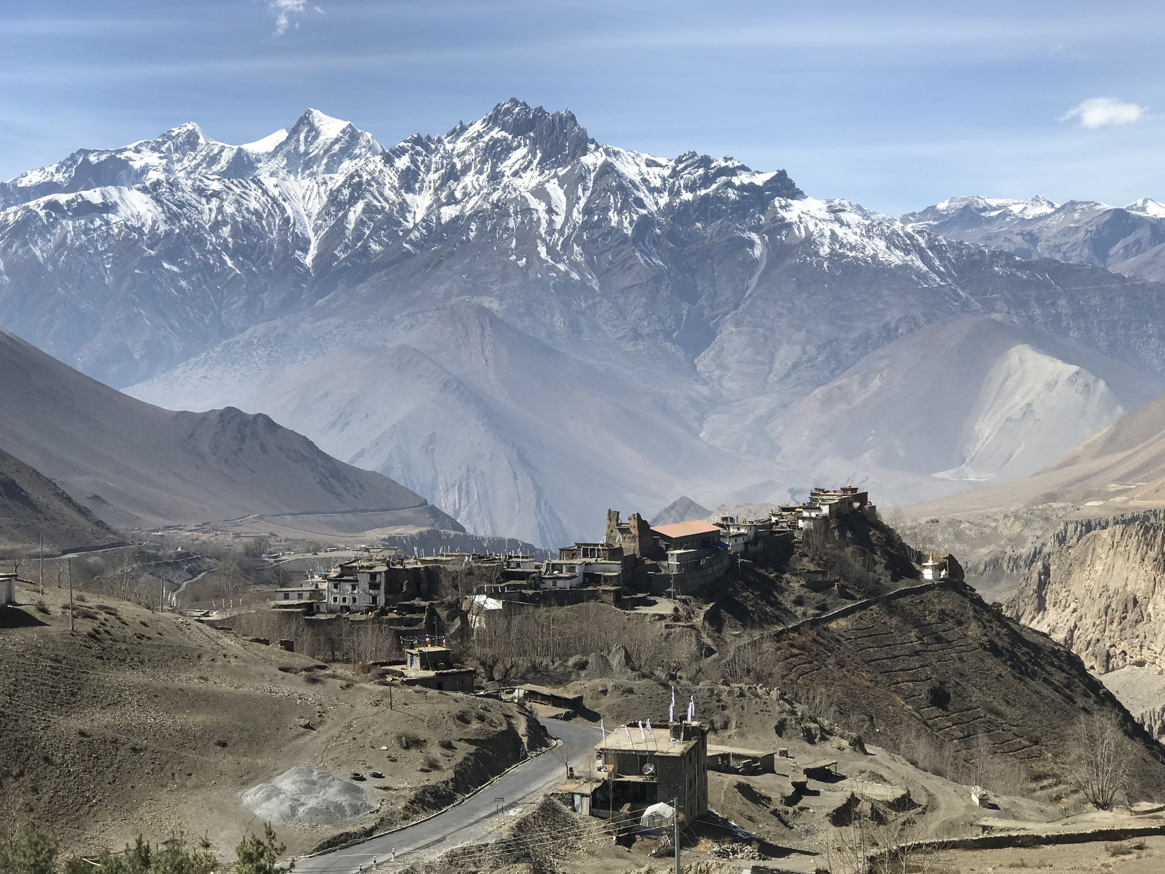 The village of Jharkot in Lower Mustang.